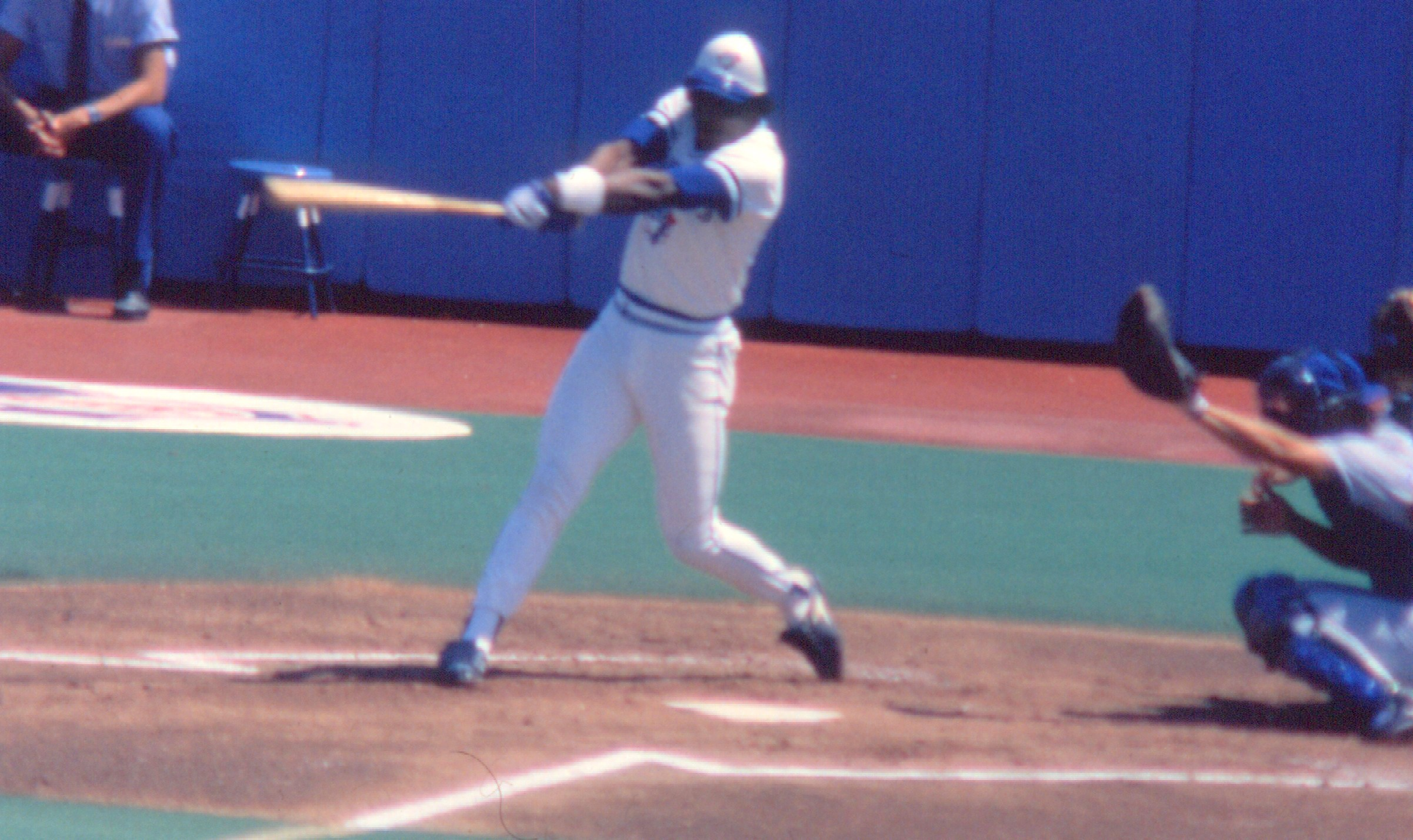 Lloyd Moseby swinging at a pitch, September 1985